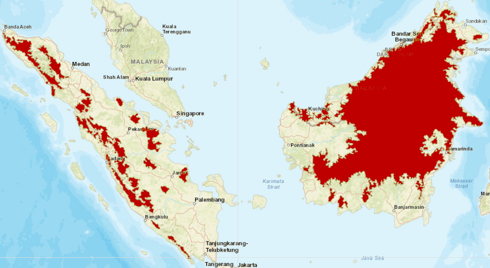 Sunda Clouded leopard distribution